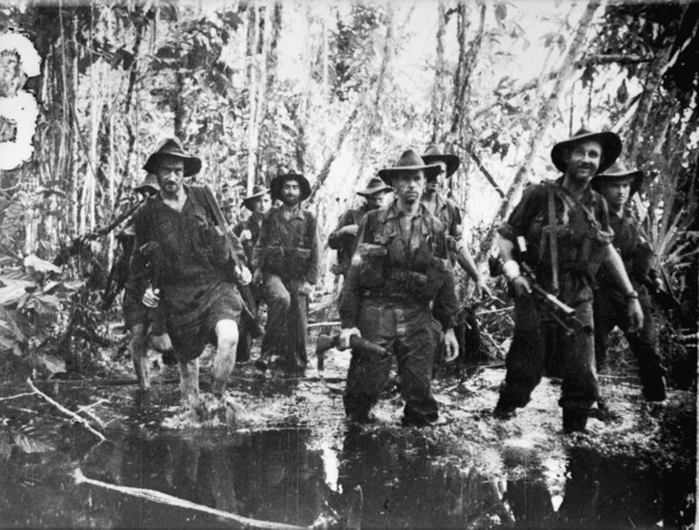 1942-12. PAPUA. BUNA. AUSTRALIAN TROOPS OF 2/7TH CAVALRY REGIMENT AT CAPE ENDAIADERE ADVANCE THROUGH MUD AND SLUSH ON BUNA. FRONT LEFT IS DAVE HERBERT, BEHIND HIM AT FAR REAR IS FRED OUGHTON, SECOND FROM RIGHT BILL PATON AND FAR RIGHT BLUE DAWSON.